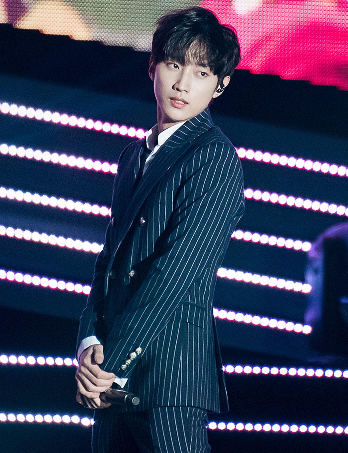 Jung Jin-young at WFMF concert on September 11, 2016.